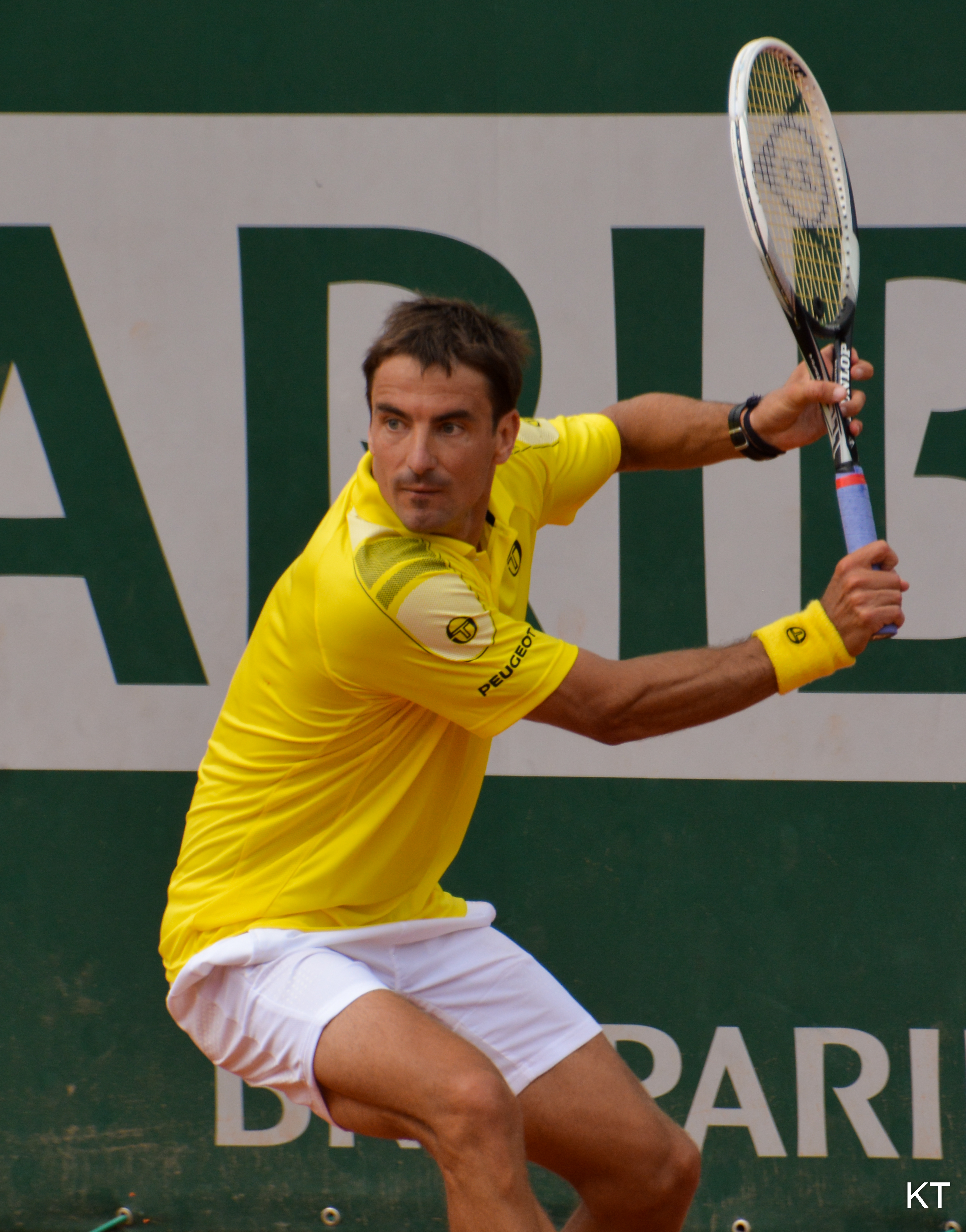 Tommy Robredo in his first round match with Andrey Golubev. Robredo won 3-6, 6-1, 7-5, 6-3. Day 2 of Roland Garros 2015.